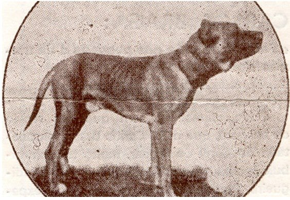 Portuguese Alaunt type hunting catch dog named Bocanegra ("Black mouth"). Bocanegra participated in a hunting with King Carlos I of Portugal between October 31 and November 3, 1904. Photograph from magazine A CAÇA – 5º, Anno VI, 1905. Lisboa, Portugal.